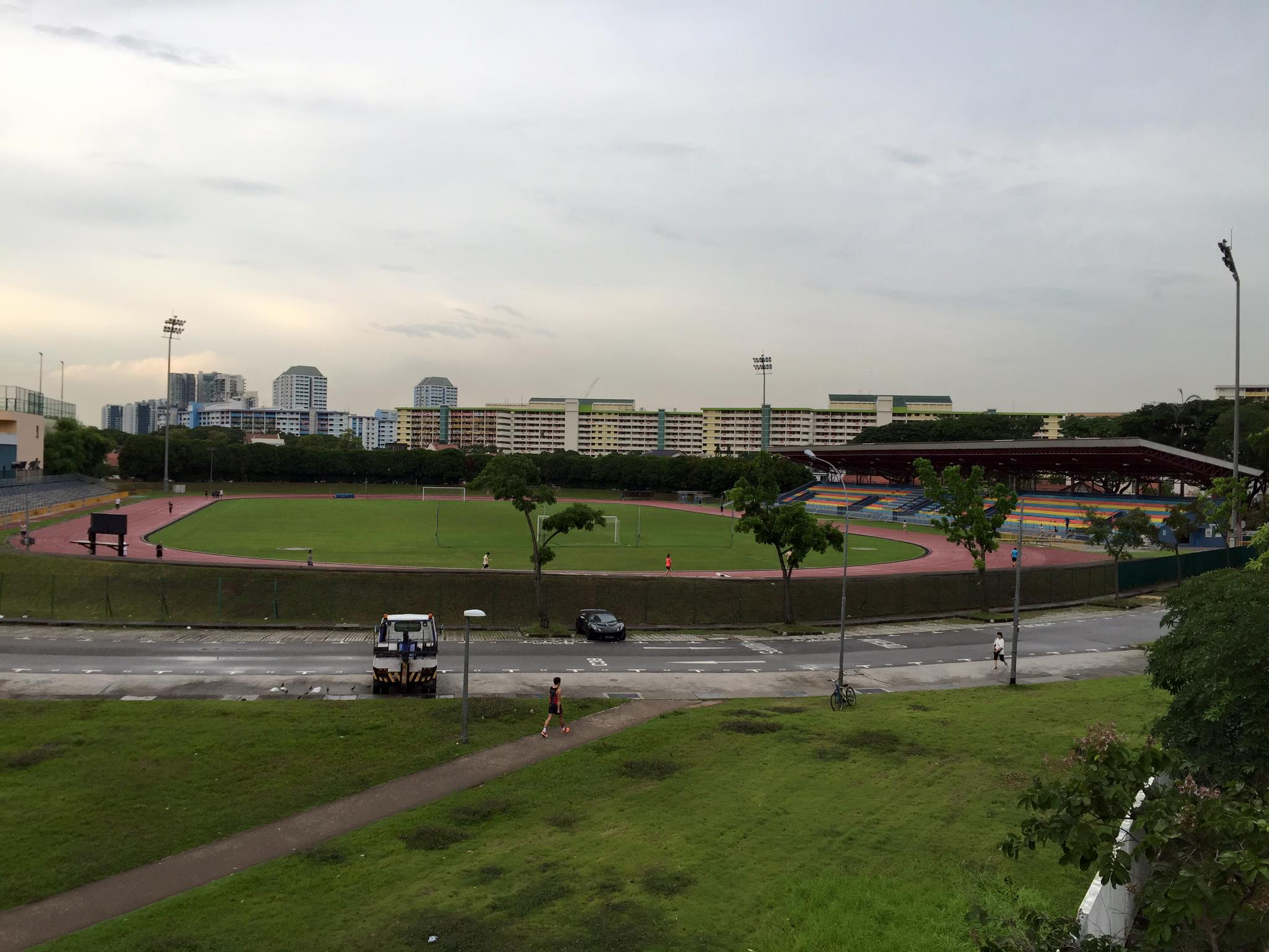 Clementi Stadium in Singapore (2015)